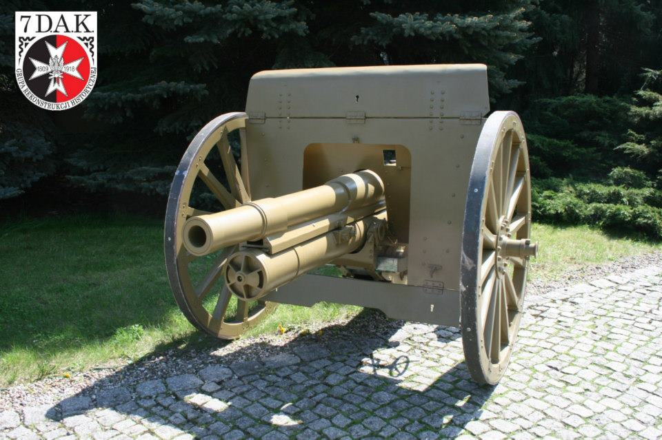 The only copy of regimental gun wz.02/26 (not one copy of the original wz.02/26 exists). Replica build by the Historical Reenactment Society of the 7th Horse Artillery Regiment.